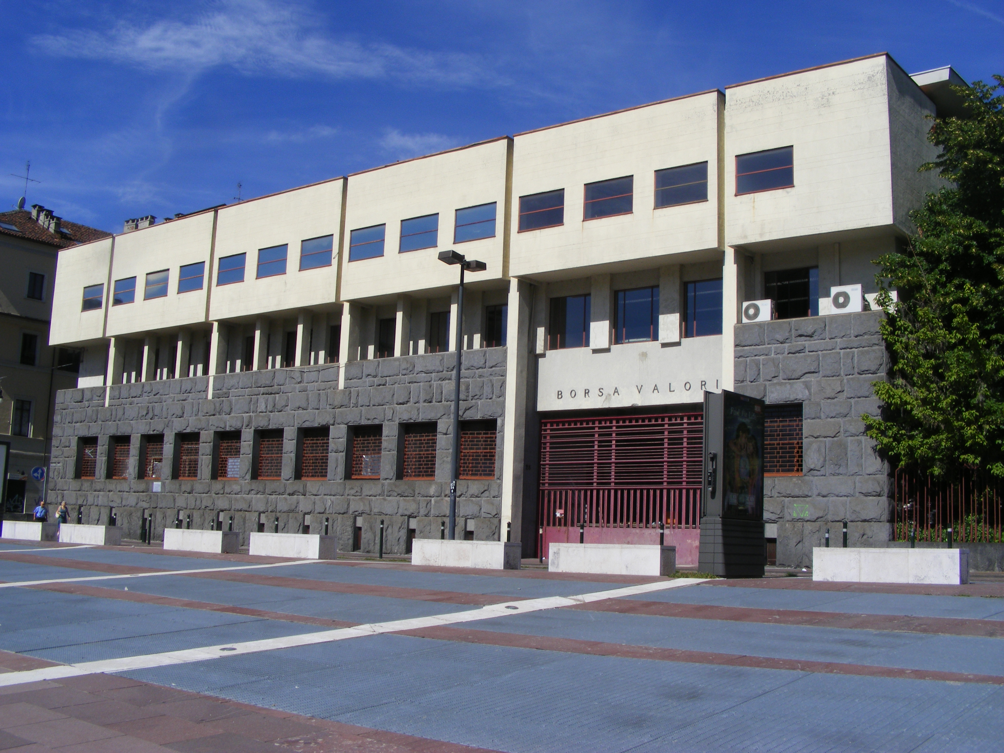 Turin Stock Exchange palace (designed by Gabetti & Isola, Giorgio Raineri and Giuseppe Raineri): overall view from Piazzale Valdo Fusi